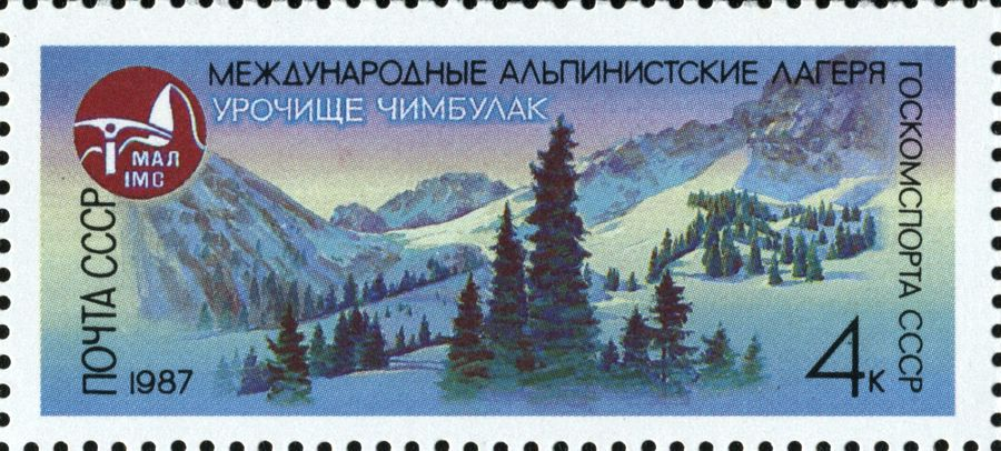 A USSR stamp, USSR Mountaineers' Camp. Date of issue: 4th February 1987. Designer: I. Kozlov Michel catalogue number: 5685. Scott 5532 4 K. multicoloured. Chimbulak Gorge, Kazakhstan